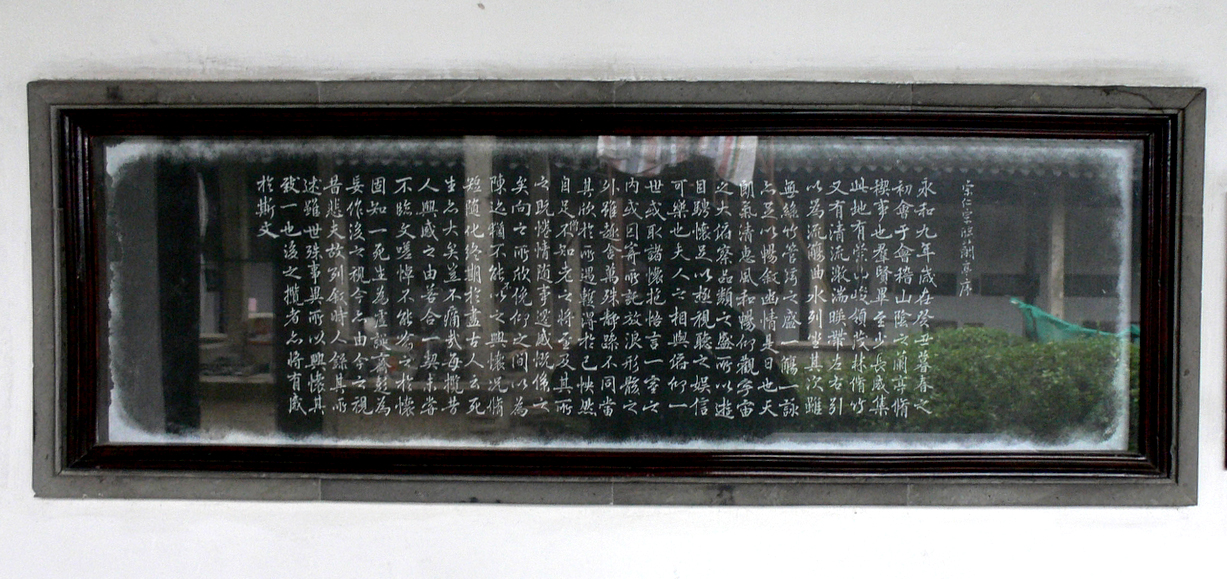 Emperor Songrenzong caligraphy tablet of Preface to Lanting Poems